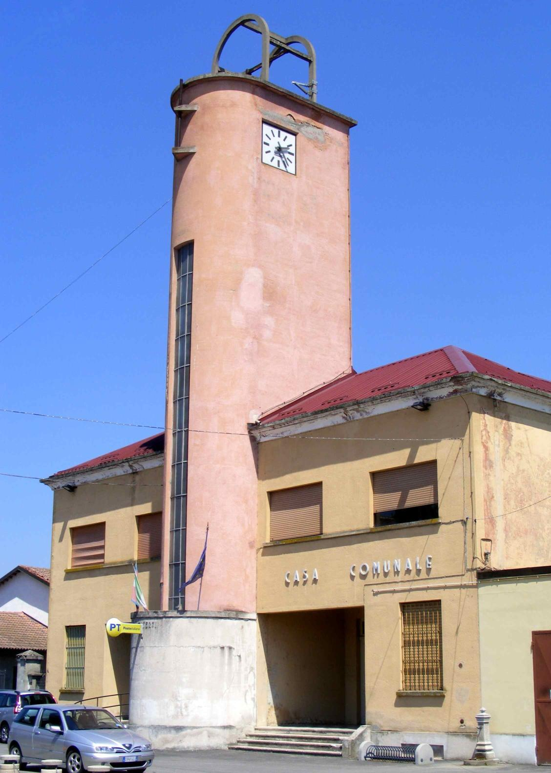 Sali Vercellese (VC, Italy): town hall